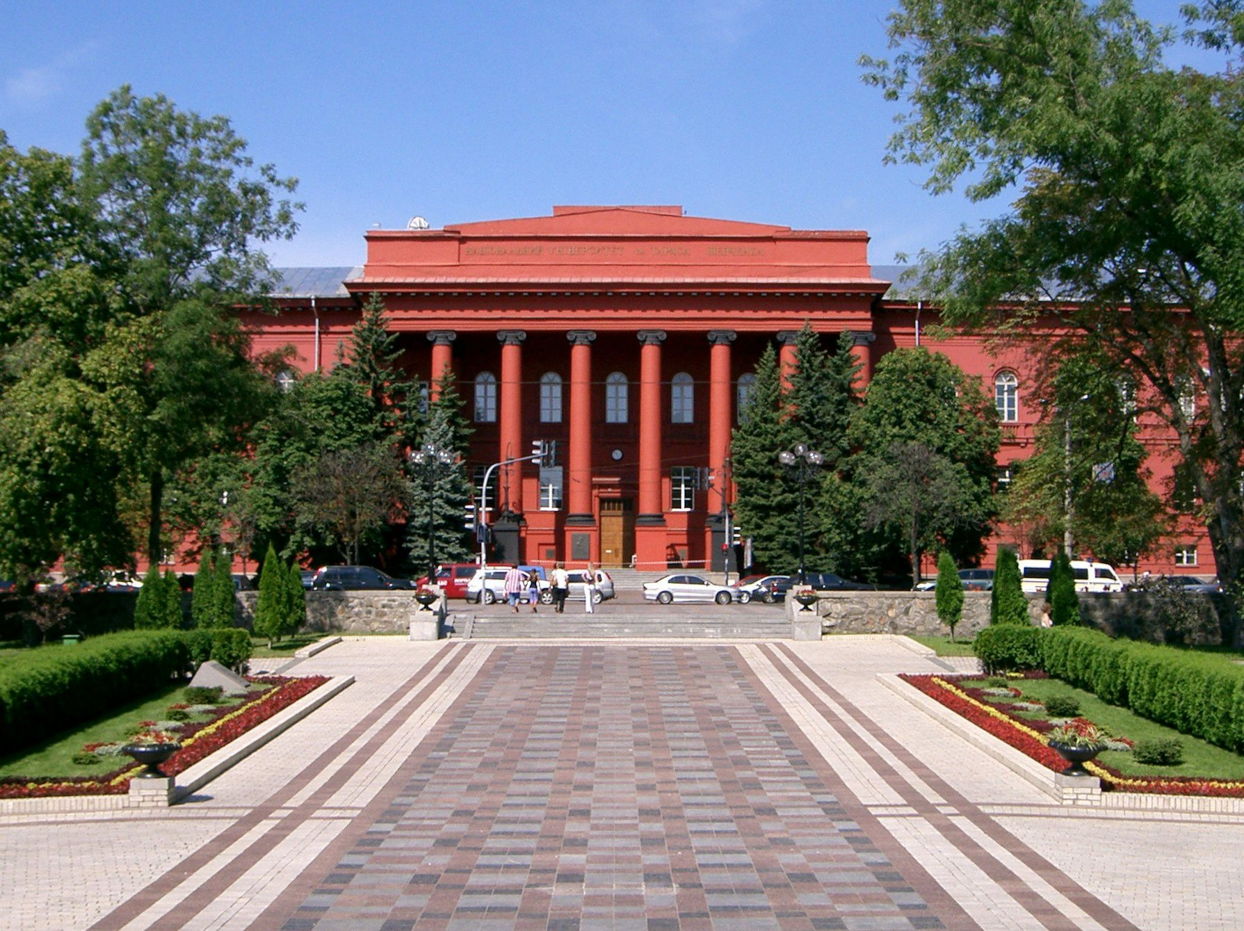 main building of Kiev University